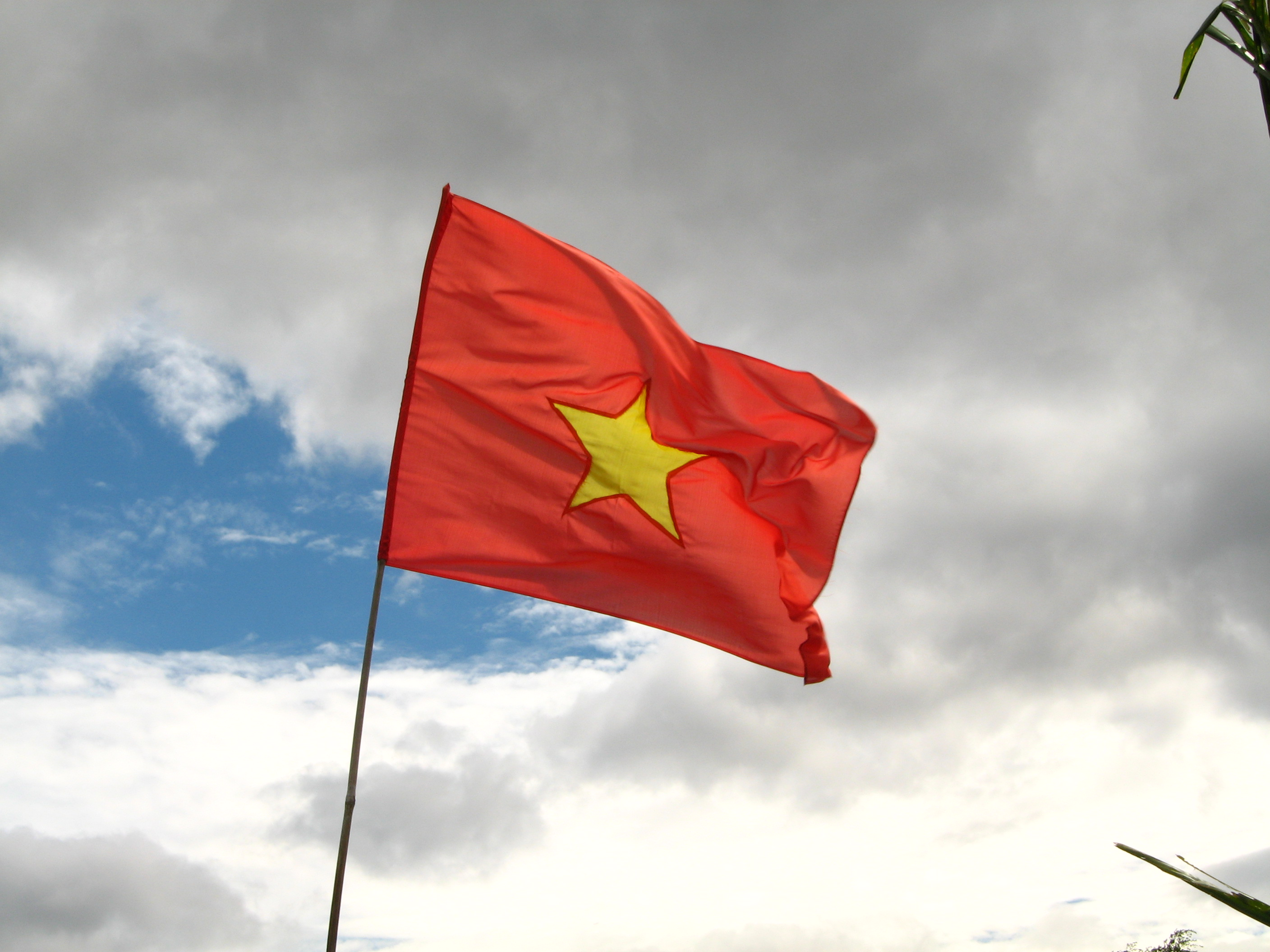 Surroundings of Dalat, Vietnam